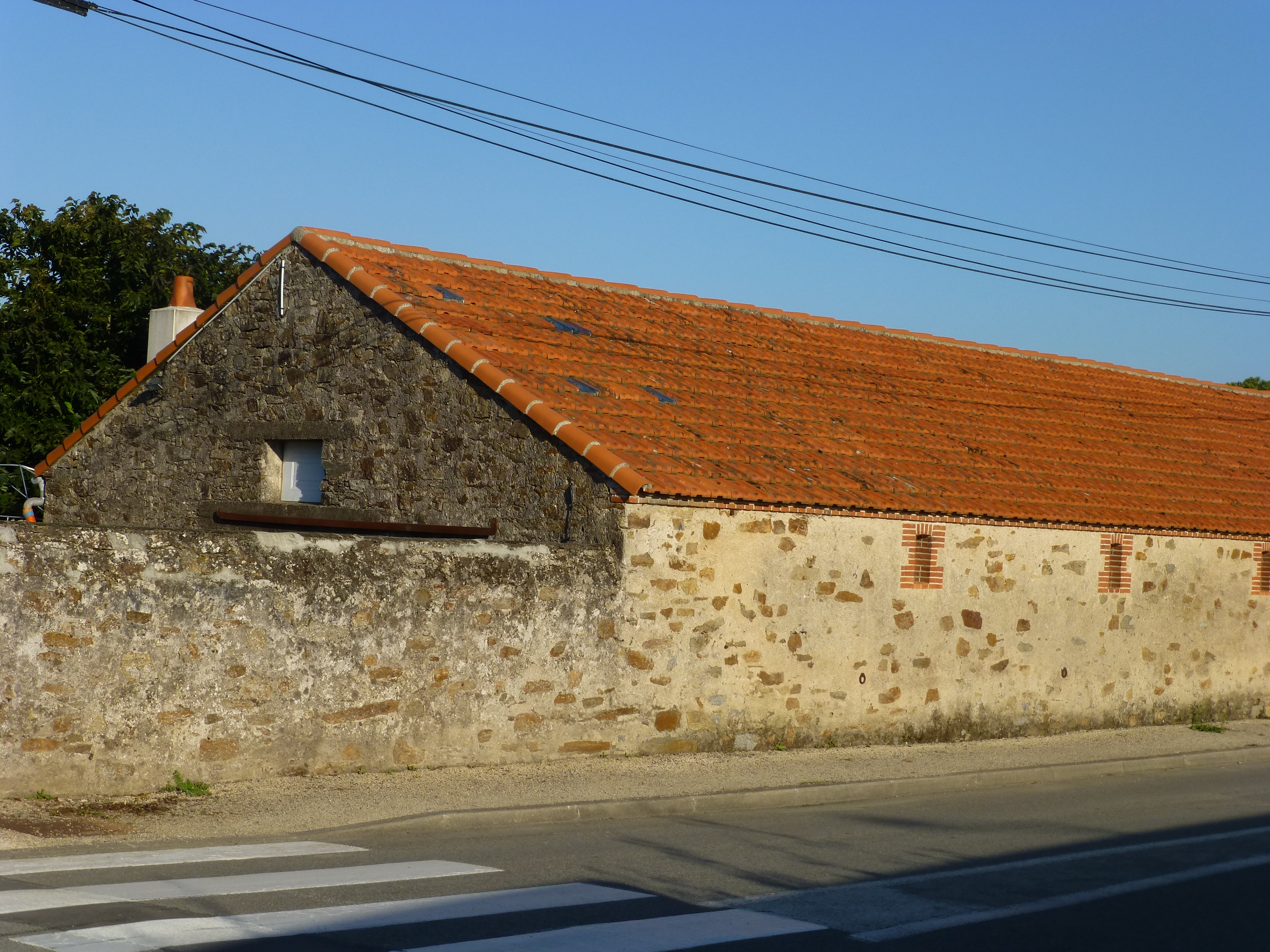 Chéméré, a house